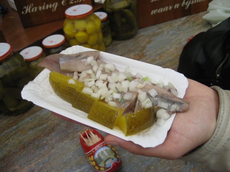 Herring with pickles and onions, Netherlands